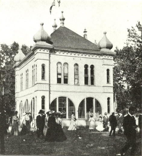 The Moorish style music pavilion built at Davenport's Schuetzen Park in 1895.